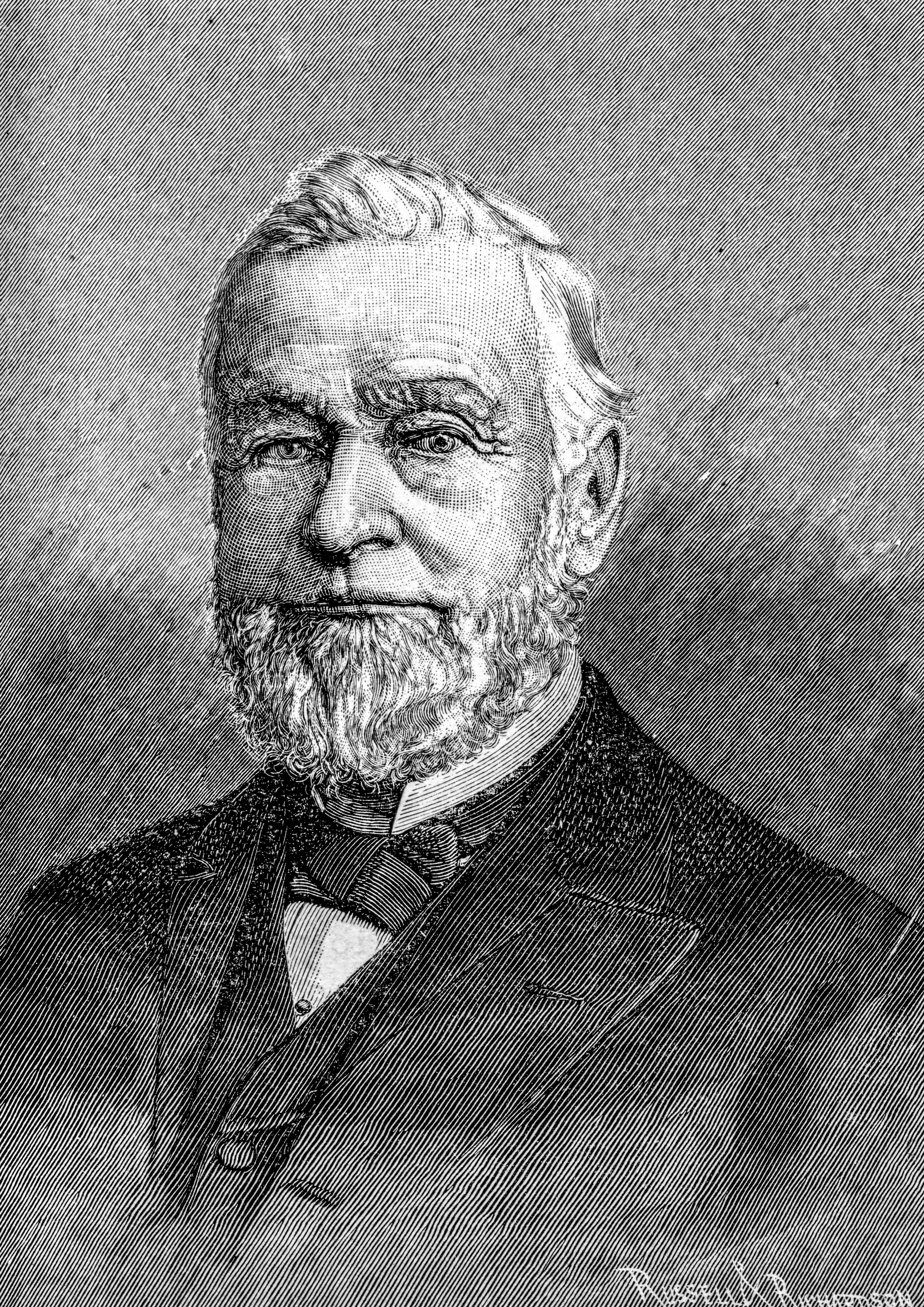 Providence mayor Amos Barstow engraving from The Providence Plantations for 250 Years, 1886